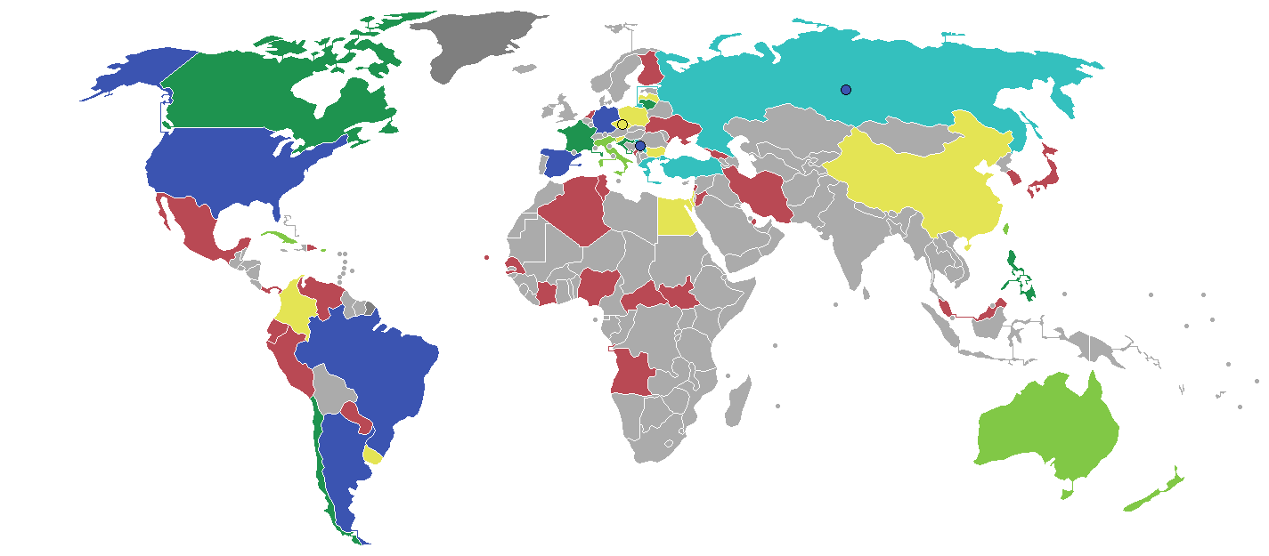 Countries that qualified at the FIBA World Championship Inset shows defunct national teams (West Germany, Czechoslovakia, Socialist Federal Republic of Yugoslavia and the Soviet Union). First place Second place Third place Fourth place Fifth place to Eighth place Worse than Eighth place FIBA member, no appearance yet Not a FIBA member